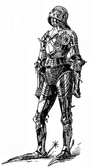 Gothic Armour of Maximilian I (work of Lorenz Helmschmied, Nuremberg 1475)